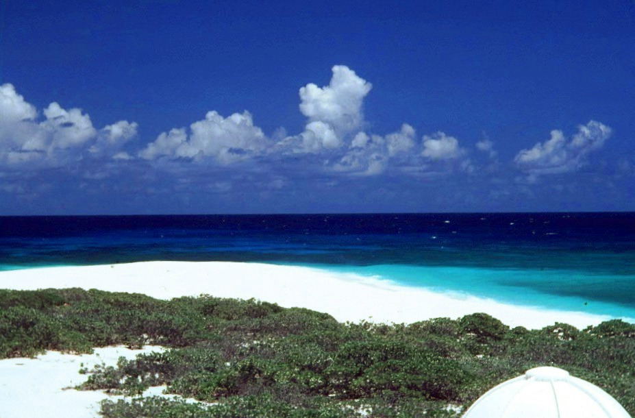 Beach at Tromelin, Indian Ocean.